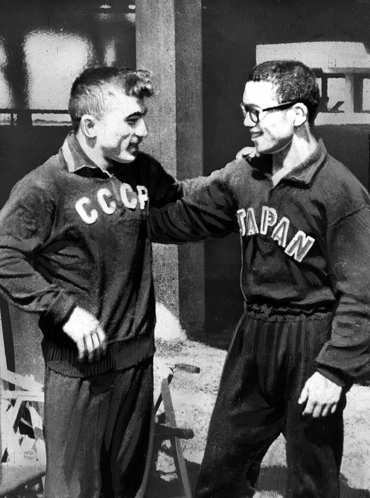 Wrestling Freestyle Flyweight Masayuki Matsubara (R) and Ali Aliyev (L) of Soviet Union greet at the Athlete Village ahead of the Rome Summer Olympic Games on August 22, 1960 in Rome, Italy.